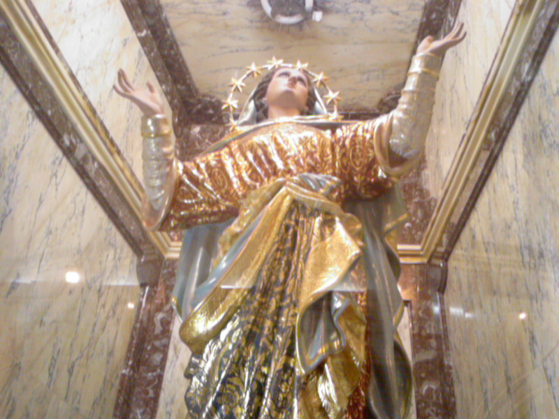 Our Lady of Atocia, Knisja tal-Madonna tas-Samra, Hamrun